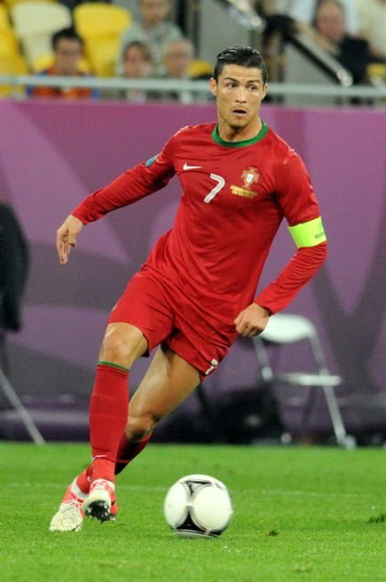 Match between Germany and Portugal during UEFA Euro 2012 that took place in Lviv. Final score was 1:0 (NANI).